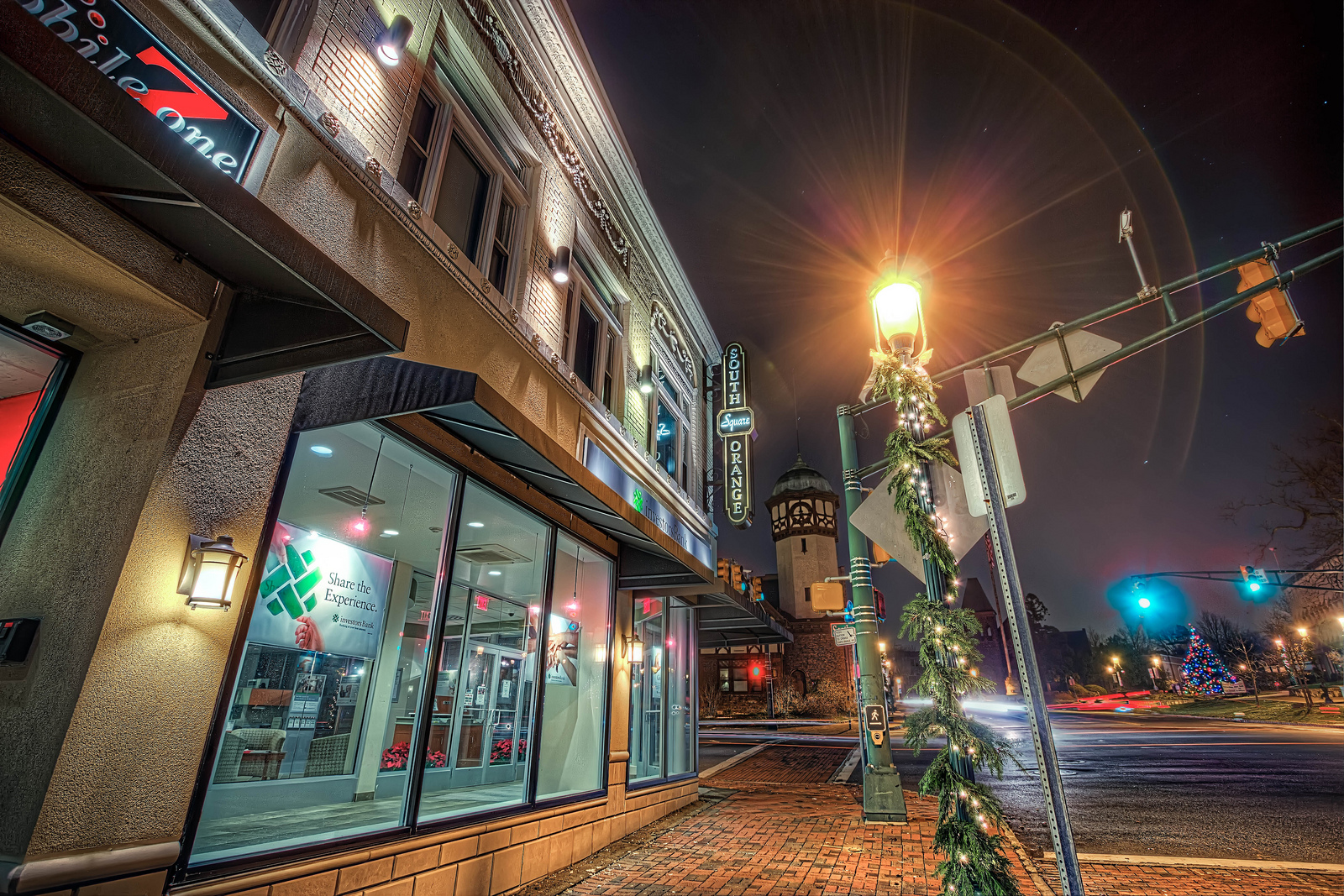 Brightly lit street corner in the town of South Orange, NJ